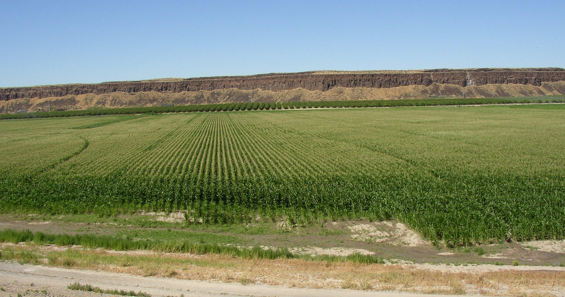 Oversized Crab Creek Valley showing basalt on far side. Creek on far side of valley. Photo taken by uploader. All rights released. Williamborg 05:52, 23 November 2006 (UTC)